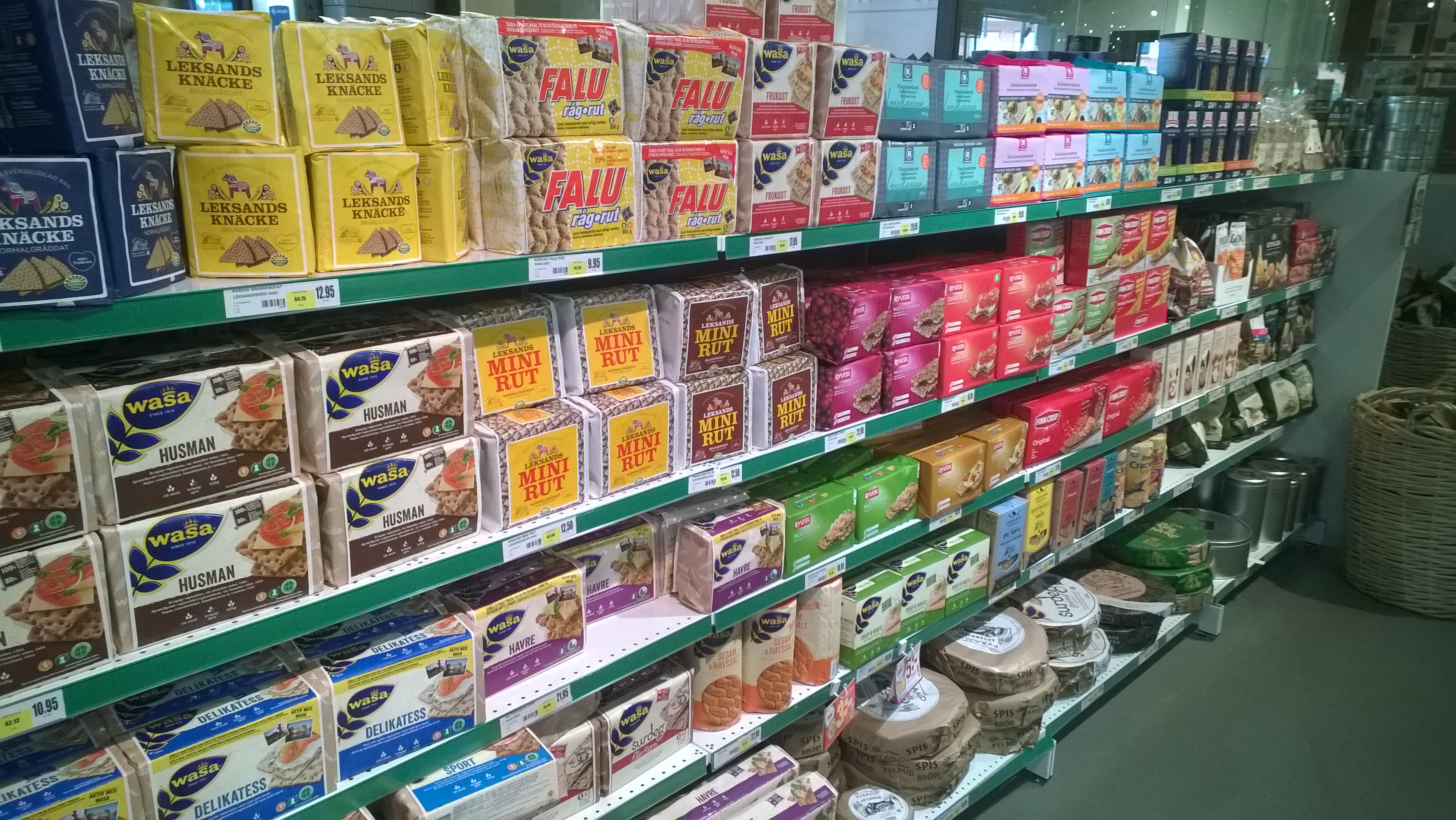 Great variety of crisp bread in a Malmö supermarket